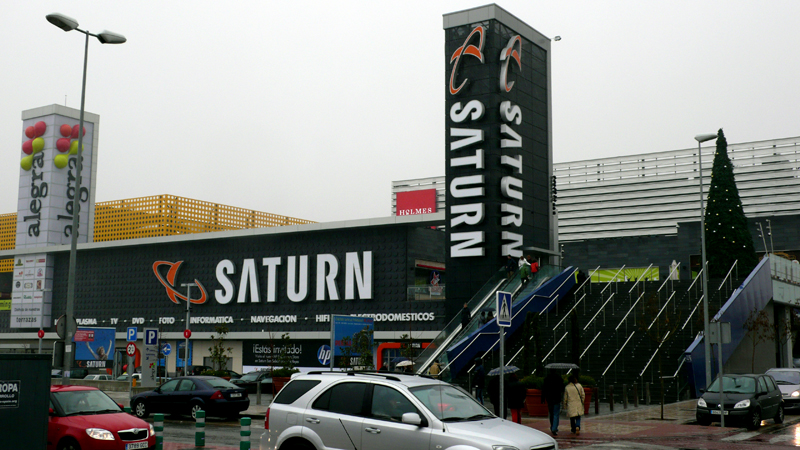 Saturn shop in Madrid (Spain)